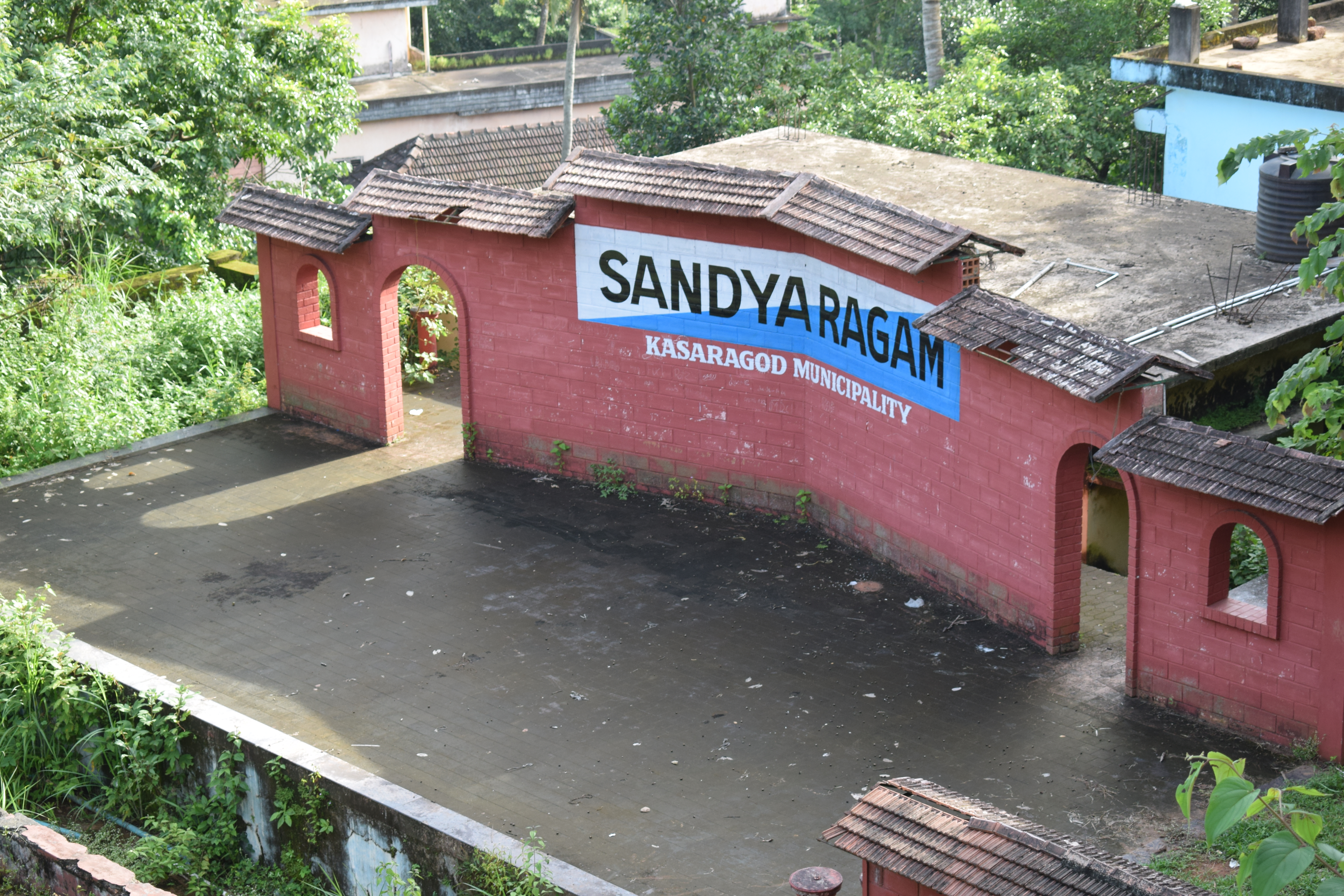 Sandhya Ragam Open Air Auditorium Kasaragod, its near kasaragod municipal conference hall and Municipal office.